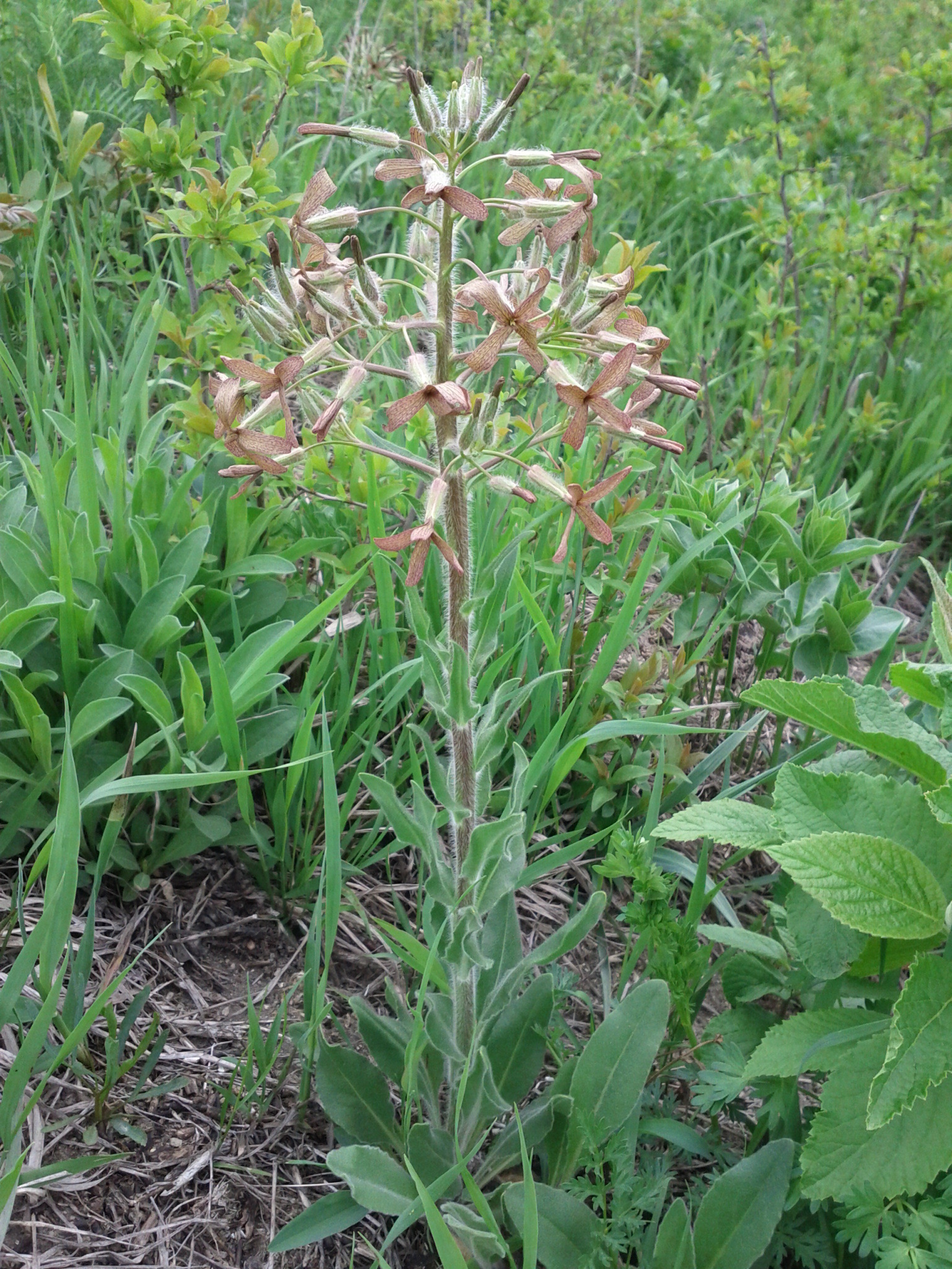 Habitus Taxonym: Hesperis tristis ss Fischer et al. EfÖLS 2008 ISBN 978-3-85474-187-9 Location: Gallows hill near Oberstinkenbrunn, district Hollabrunn, Lower Austria - ca. 340 m a.s.l. Habitat: semi-dry grassland